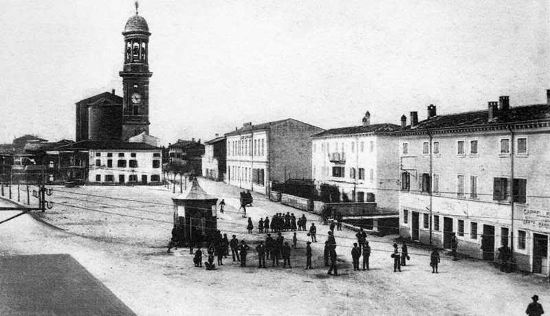 District of San Massimo all'Adige in Verona (Italy) in 1900s